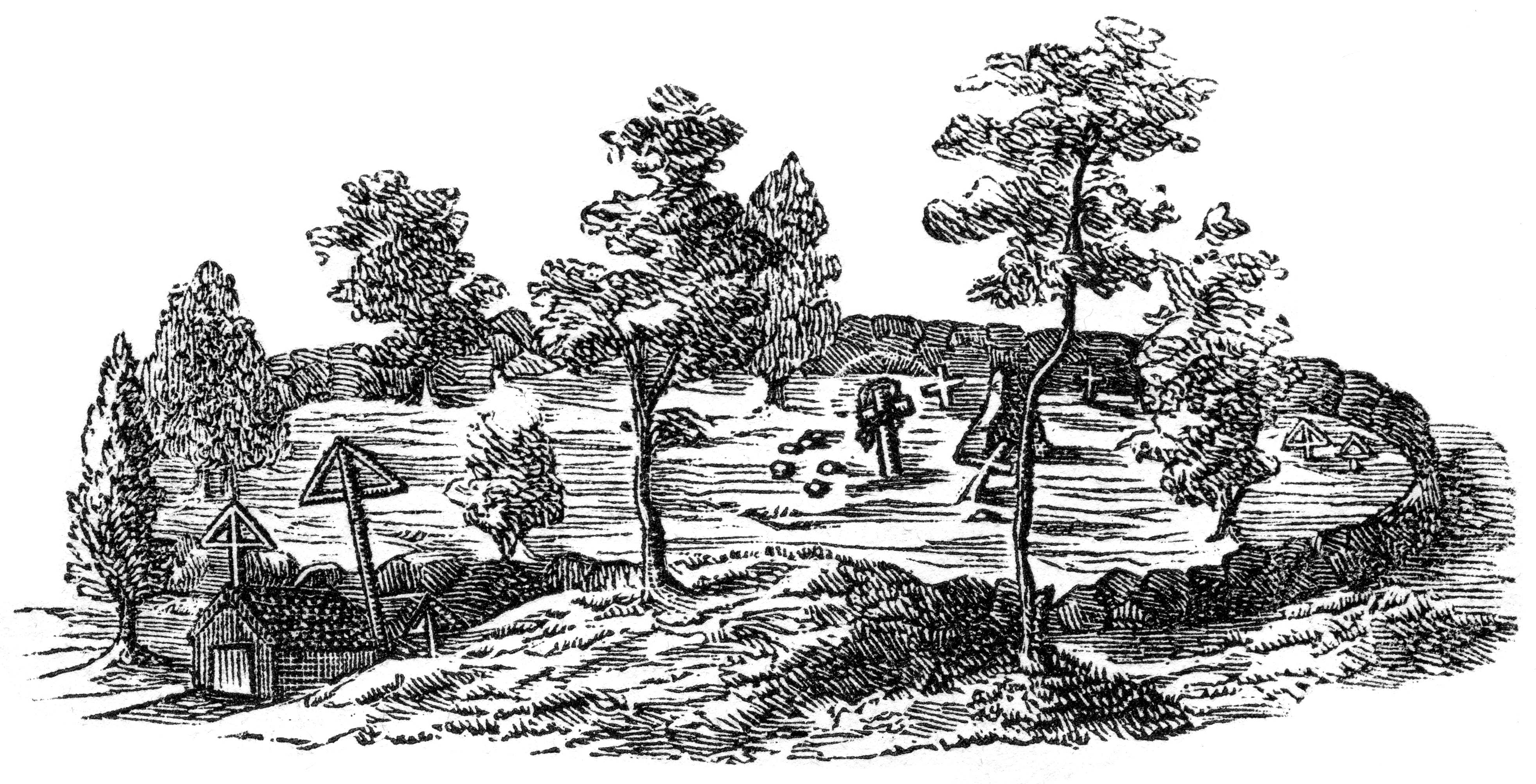 The Ingemo well in Dala parish in Västergötland in Sweden.